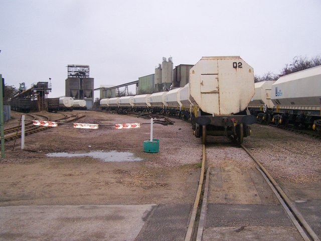 Gravel Containers on Sidings Linked to the Mineral Railway from Hoo junction to Grain. Owned by Brett Industries. Seen from level crossing on access road to Works from Salt Lane.